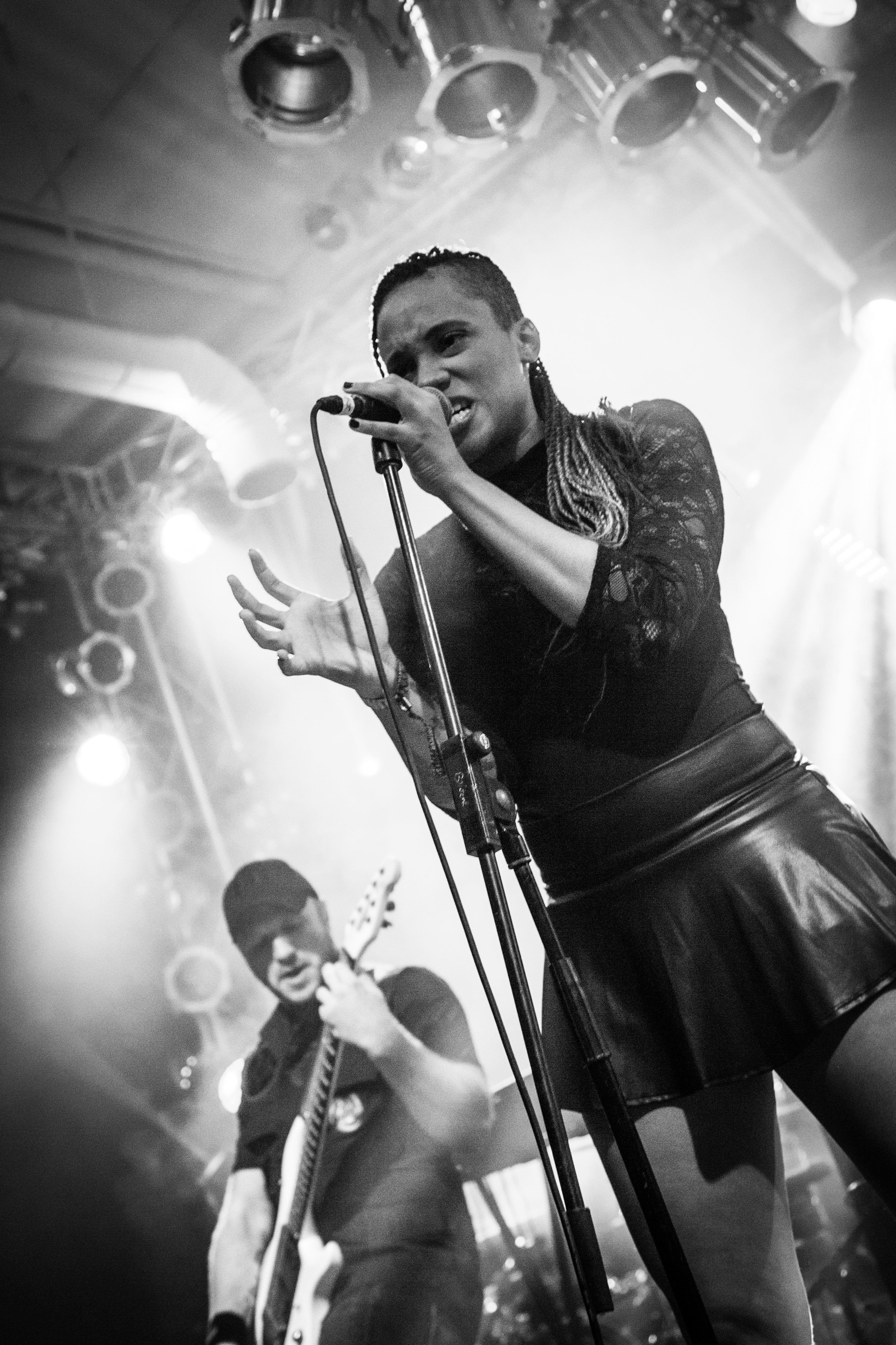 Oceans of Slumber live at the Euroblast Festival in Cologne, 2016